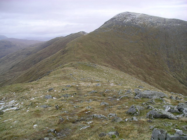 Bealach between Beinn a' Chochuill and Beinn Eunaich. Beinn Eunaich (989m) is ahead with a dusting of snow on top.